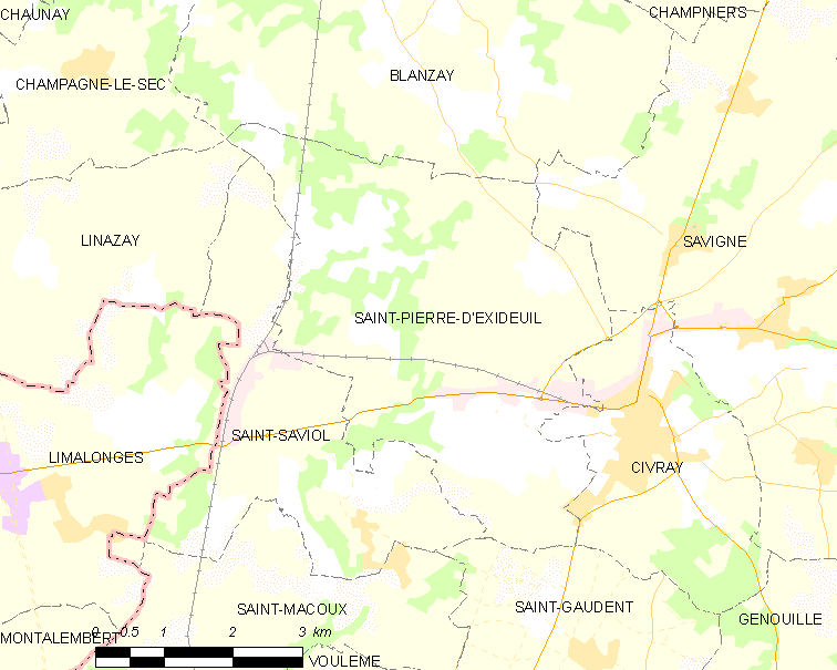 Map of French municipality Saint-Pierre-d'Exideuil